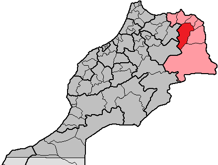 Location of the province Taourirt within the region Oriental, Morocco. In total, Morocco has 16 regions, subdivided into 62 provinces and 13 prefectures.